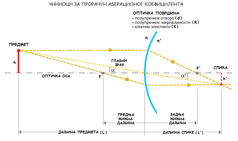 ЧИНИОЦИ У ПРОРАЧУНУ АБЕРАЦИОНОГ КОЕФИЦИЈЕНТА